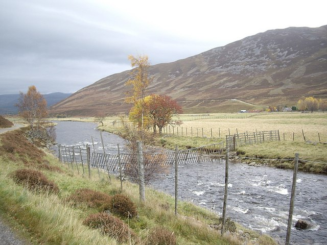 A fence crossing the River Clunie. By Old Military Road opposite Easter Auchallater (buildings far right).